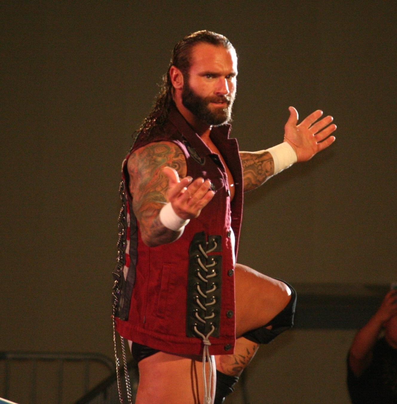 Gunner in April 2014 at Concord, North Carolina.